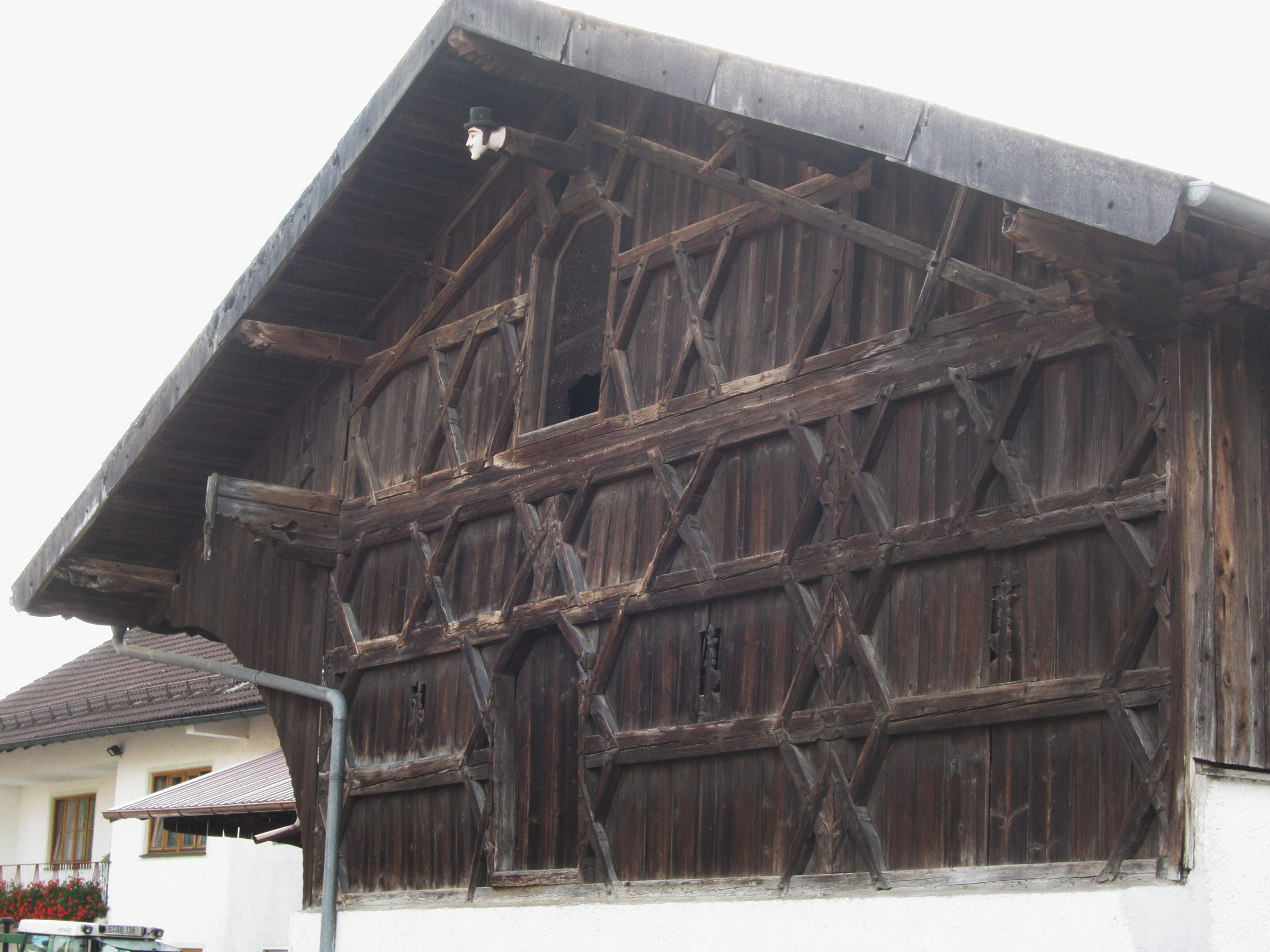 German Bundwerk style timber framing